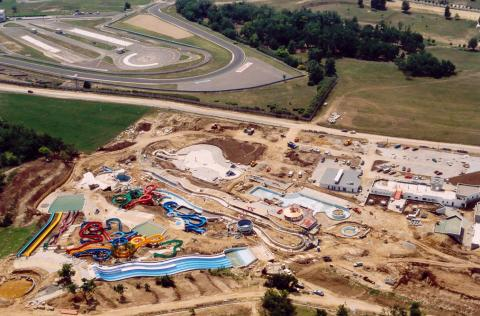 Mogyoród, Hungary, aerialphotography